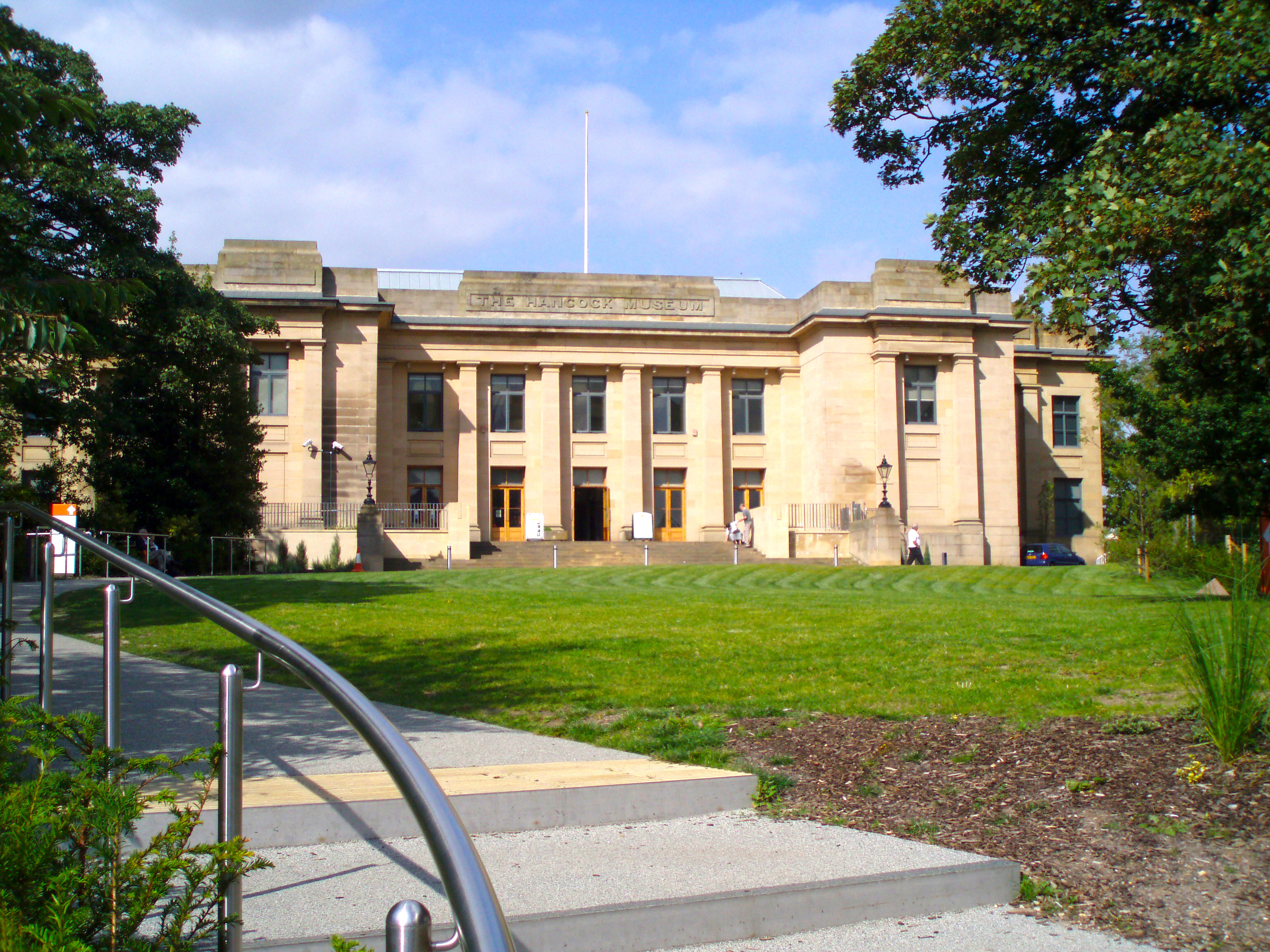 The front of the Hancock Museum in Newcastle upon Tyne in September 2009.